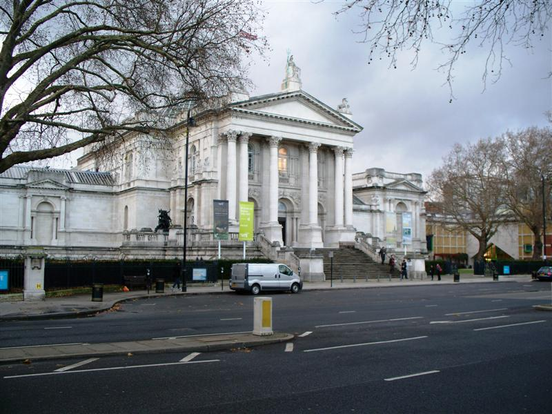 Tate Britain